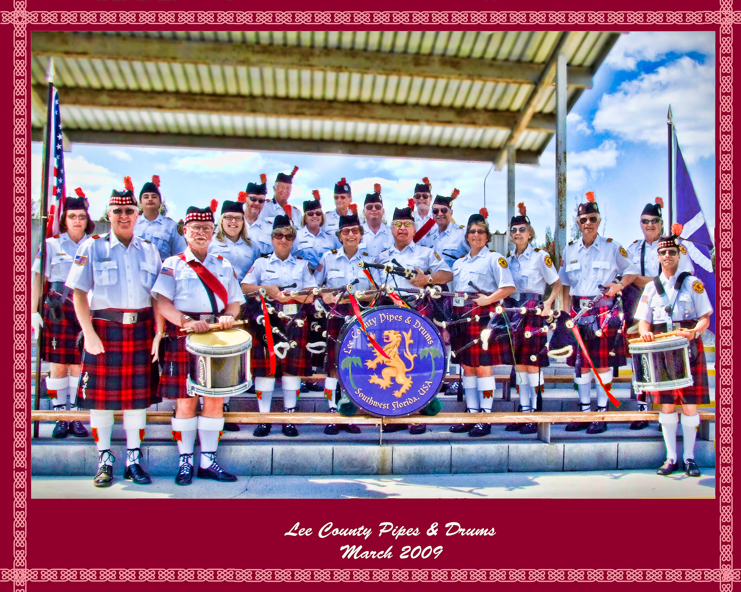 "Lee County Pipes and Drums" band prior to appearing at the Irish American Festival at the North Fort Myers German-American Club